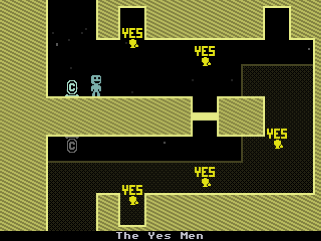 VVVVVV screenshot. Released in 2010, the game was developed by Terry Cavanagh.